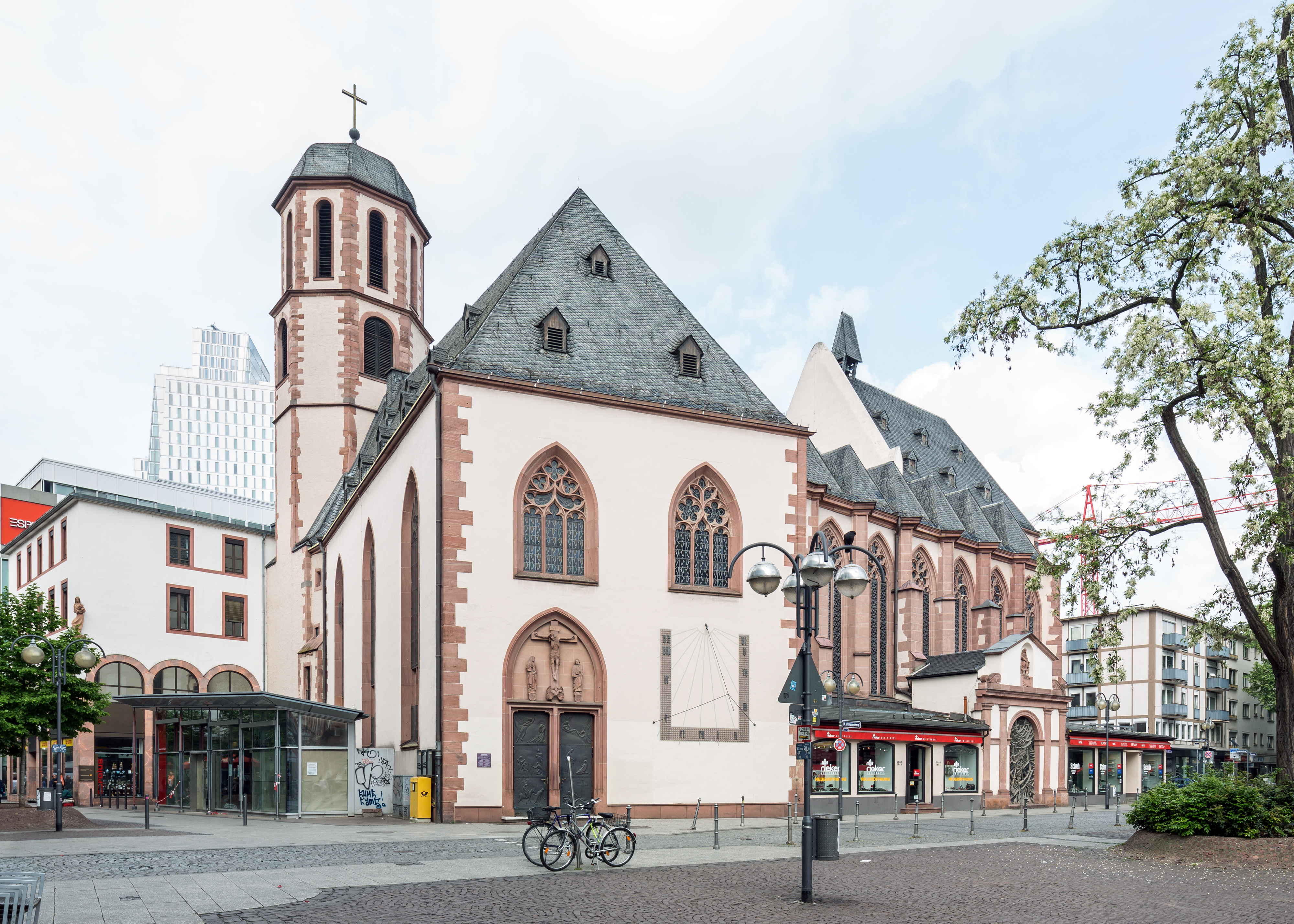 Frankfurt on the Main: Liebfrauenkirche (Our Lady's Church) as seen from the southwest